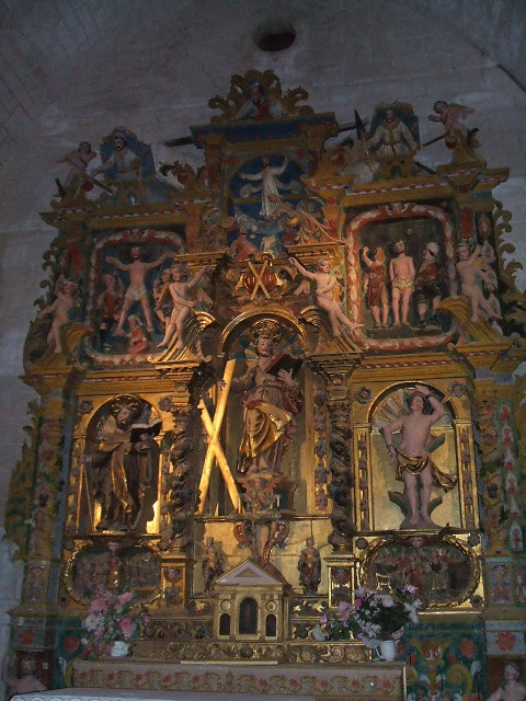 Montbolo : Saint-André church (XIIth century), main altar (1711).